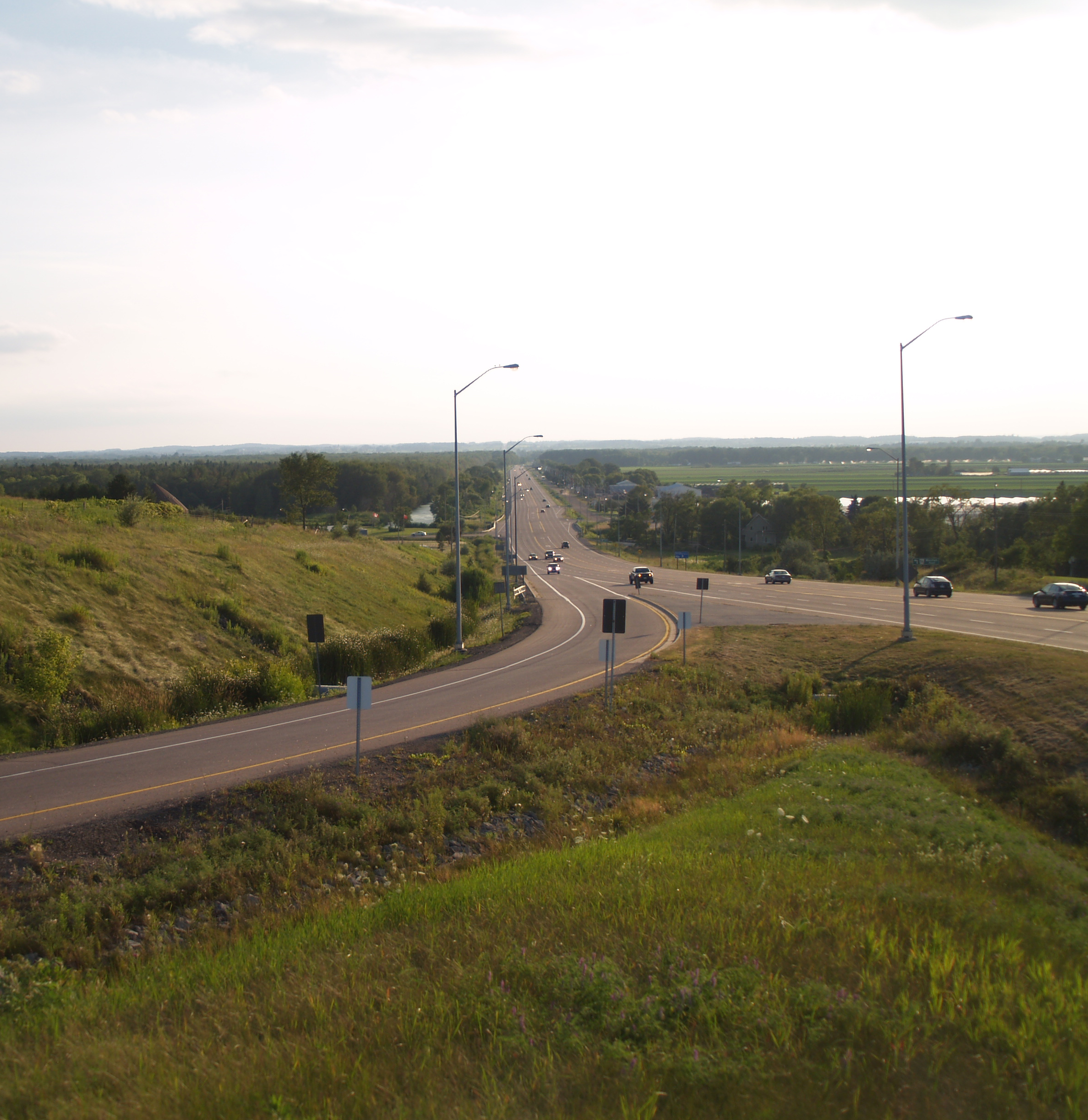 Highway 9 looking west from the Highway 400 interchange, into the Holland Marsh.